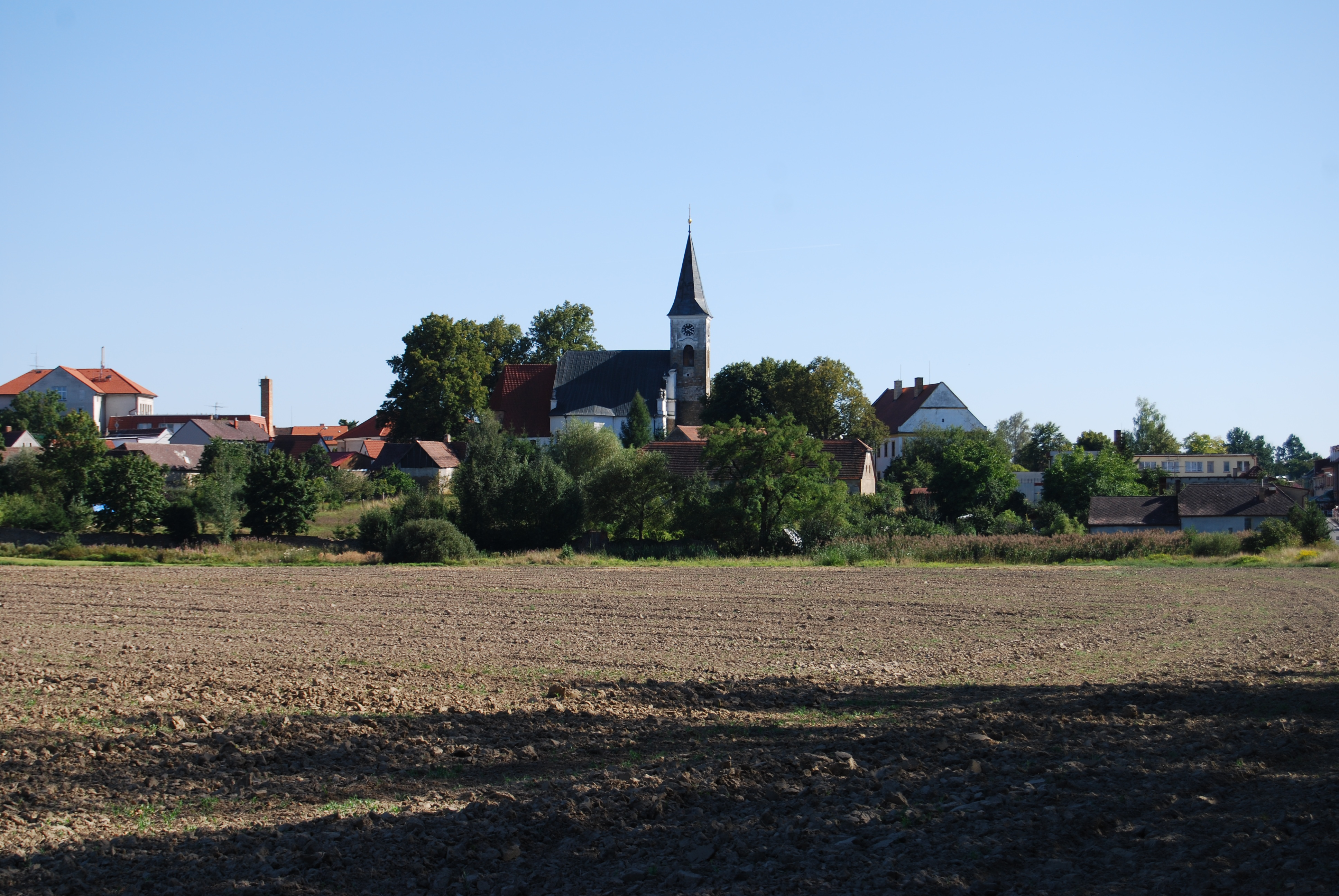 Bernartice village in Písek District, Czech Republic.